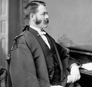 Hon. George Airey Kirkpatrick, Speaker of the House of Commons